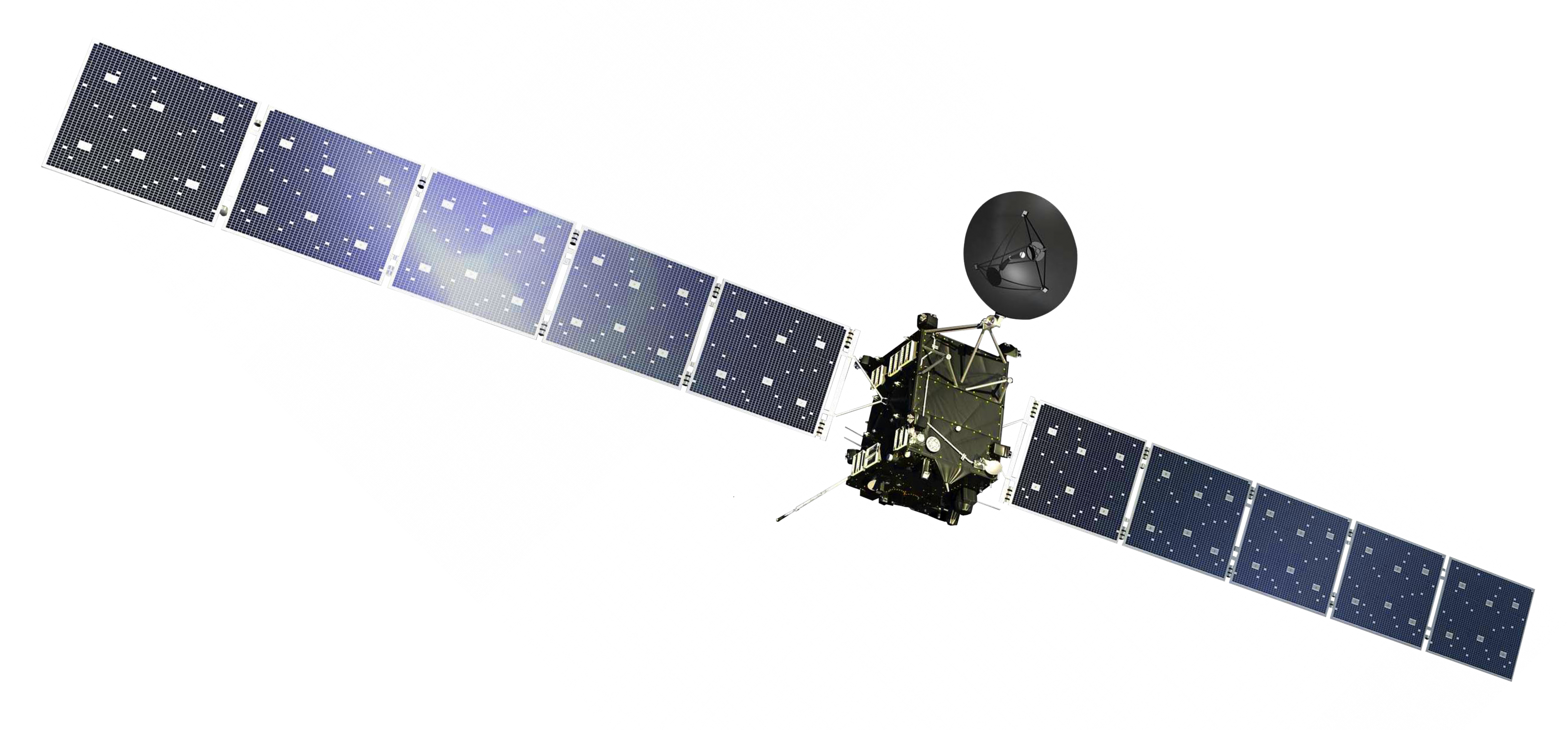 Artist's rendering, from NASA, of the European Space Agency's Rosetta spacecraft, depicted in its in-flight configuration. The Rosetta mission, the first dedicated in-orbit study of a comet, employed the use of a large spacecraft to orbit the comet 67P/Churyumov–Gerasimenko, using its unique, purpose-built instruments to study the characteristics and nature of comets in the solar system, using 67/P as its subject of study.